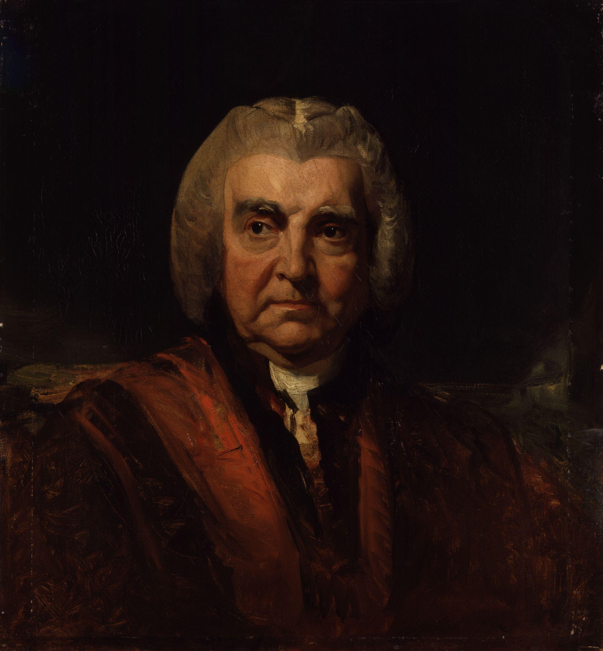 Edward Thurlow, Baron Thurlow, by Sir Thomas Lawrence (died 1830). All images in this batch have been confirmed as author died before 1939 according to the official death date listed by the NPG.